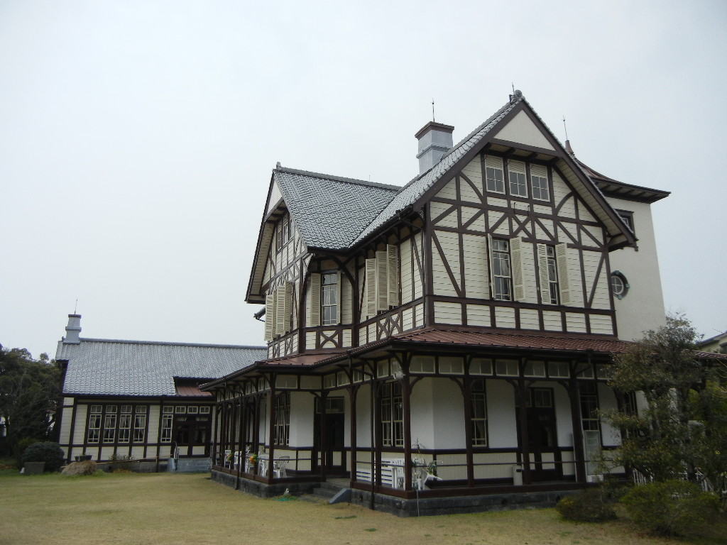 Minato-club. 旧三井港倶楽部, Omuta.